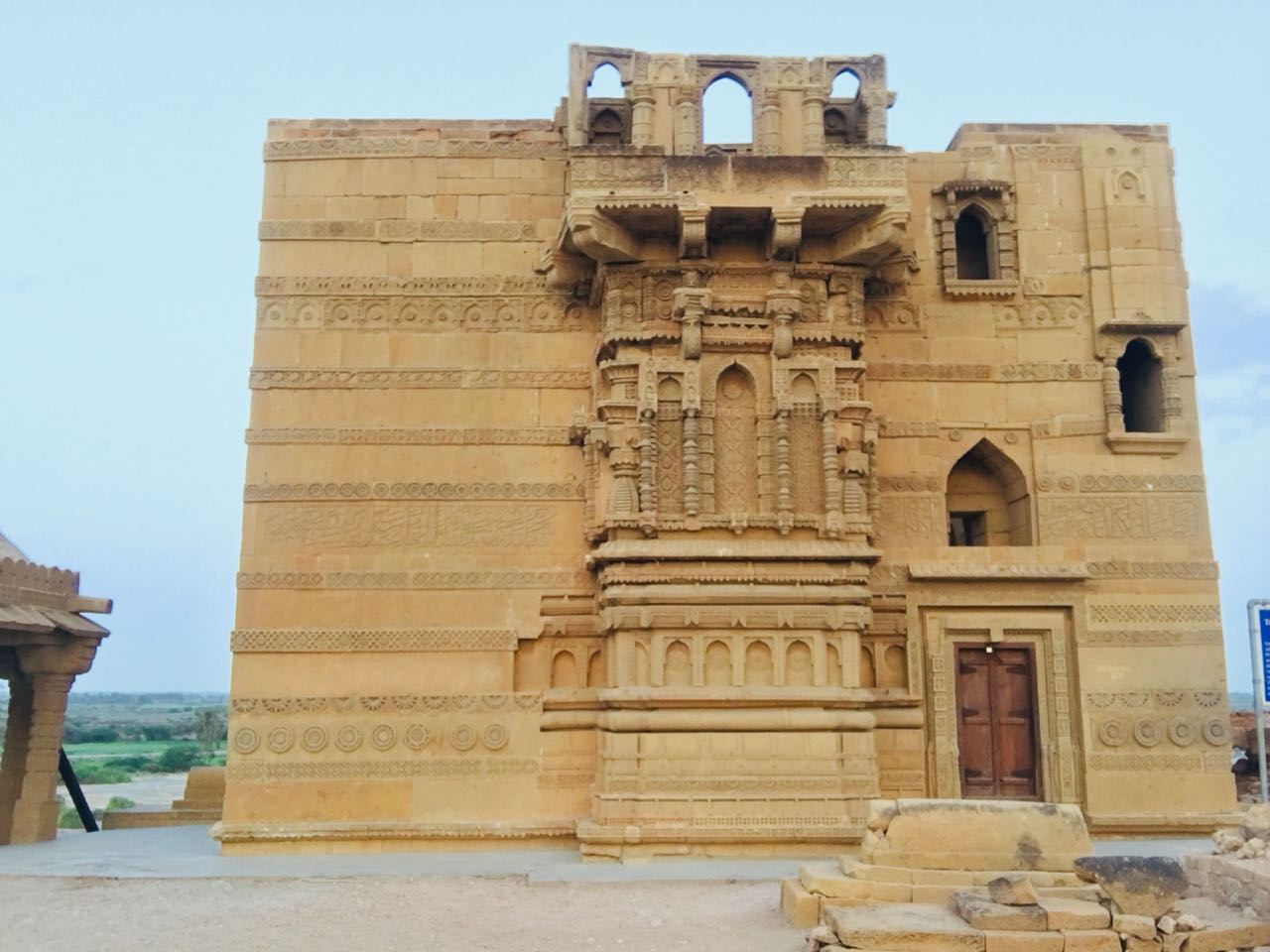 Tomb Of Sultan Jam Nizamuddin Bin Sultan Jam Sadaruddin سنڌي: ڄام نظام الدين بن سلطان ڄام صدرالدين جو مقبرو